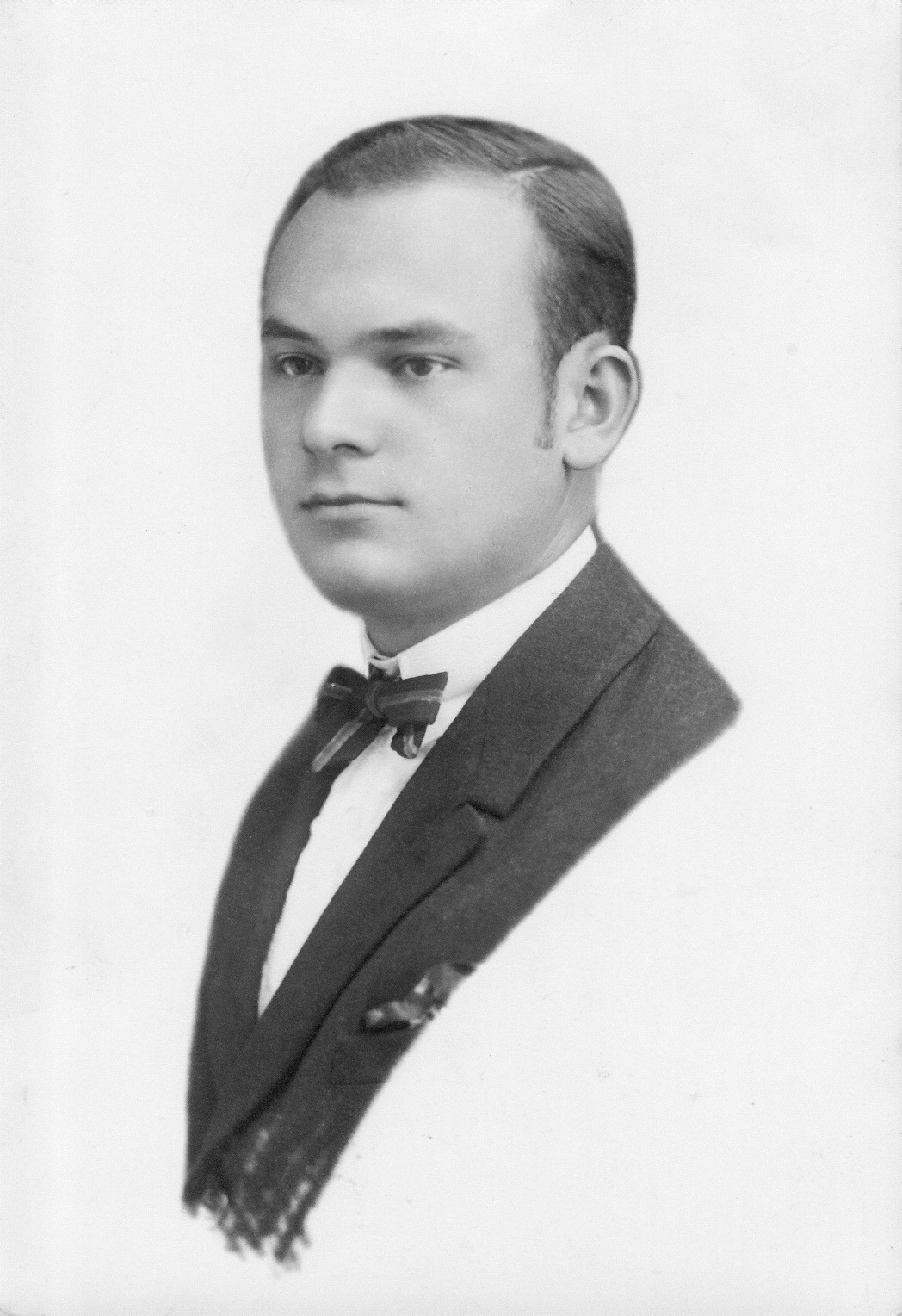 A potrait of Czech writter Jaroslav Janouch (*1903).